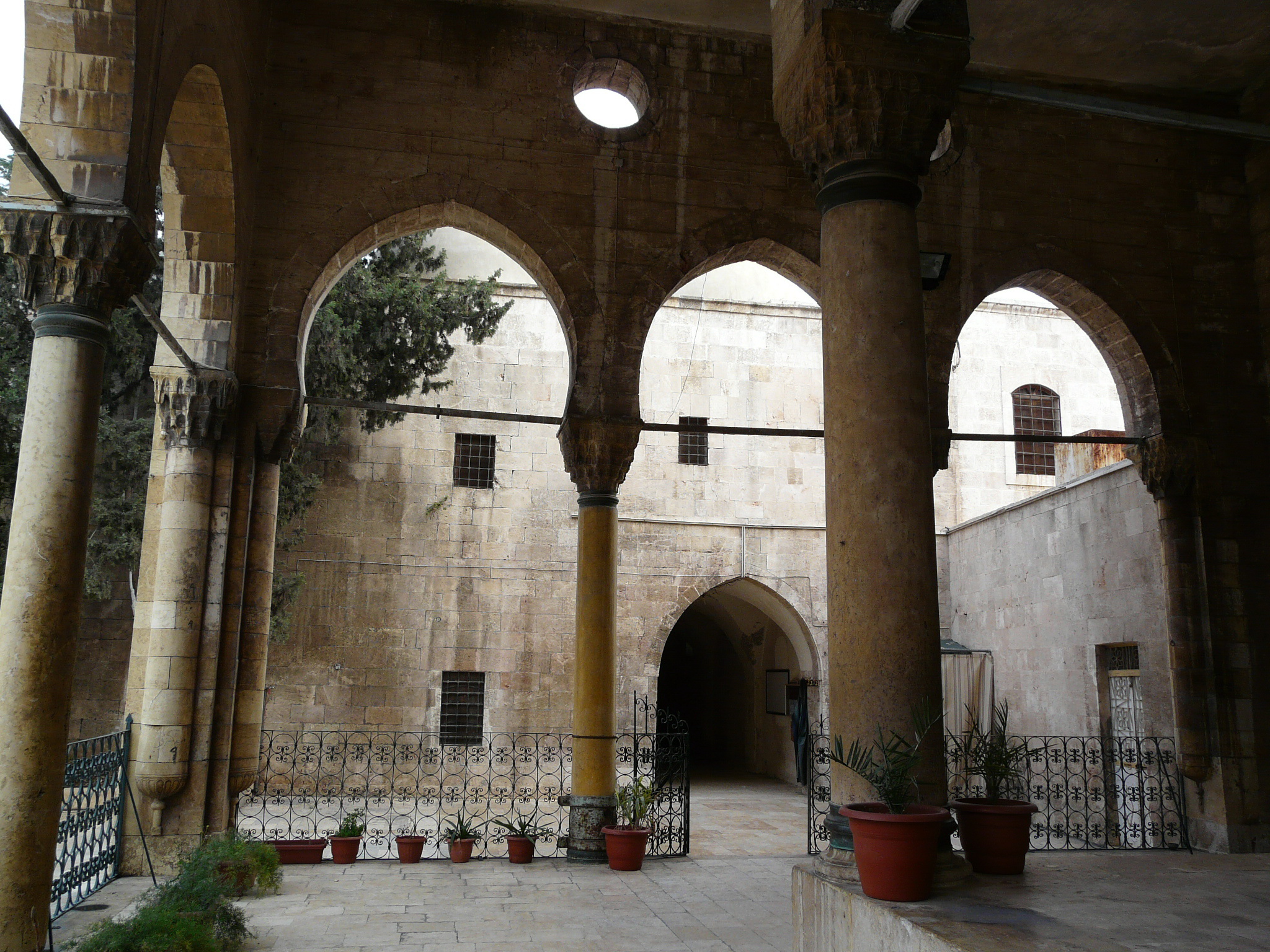 Al-Adiliyah Mosque Aleppo